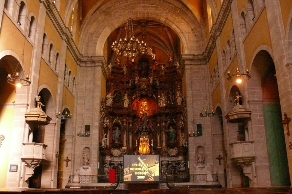 Santa Maria church, in Igualada, Spain. photo taken during the Festival of Organ Music